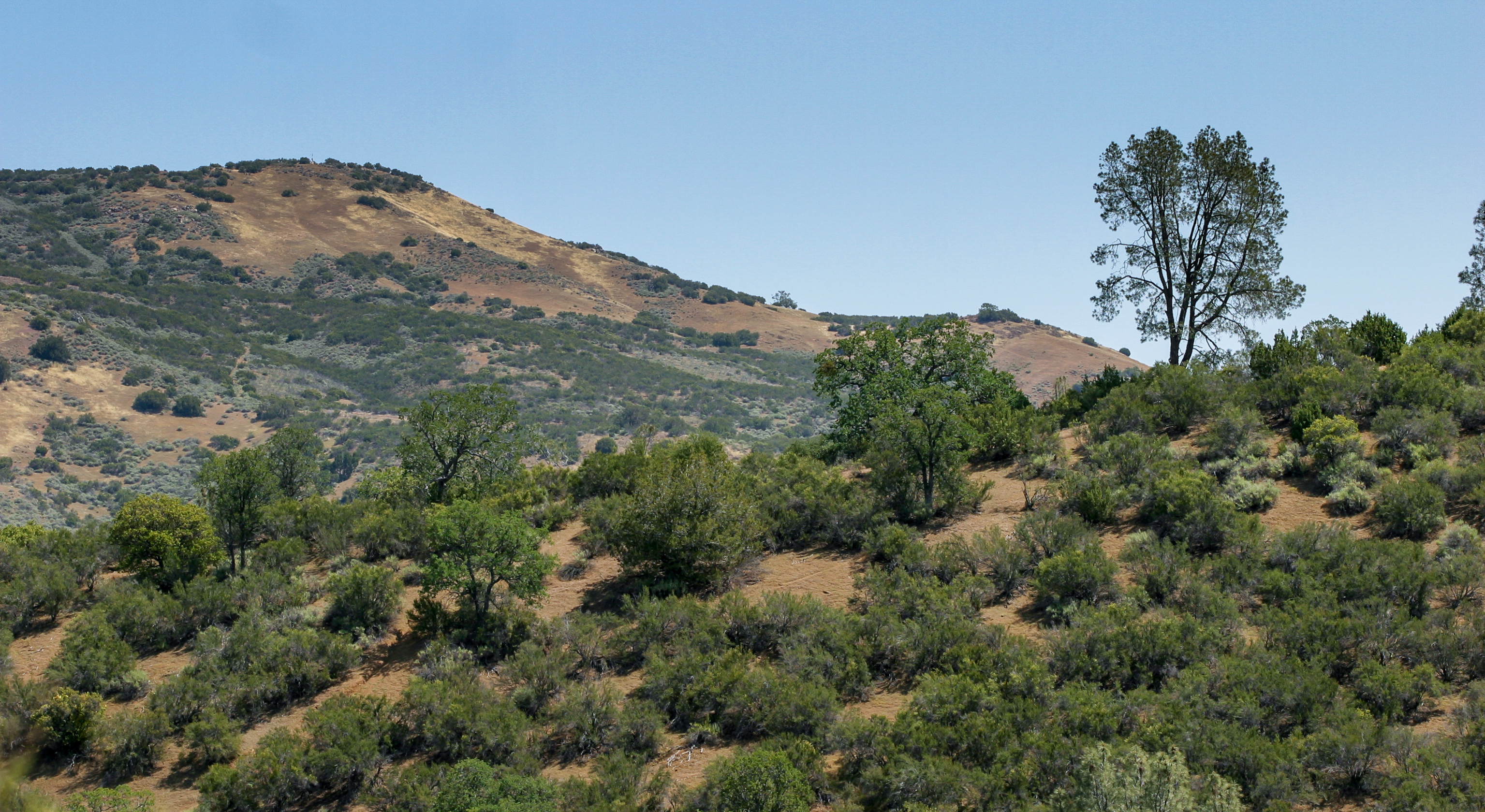 View from Del Puerto Canyon in the California coast range.